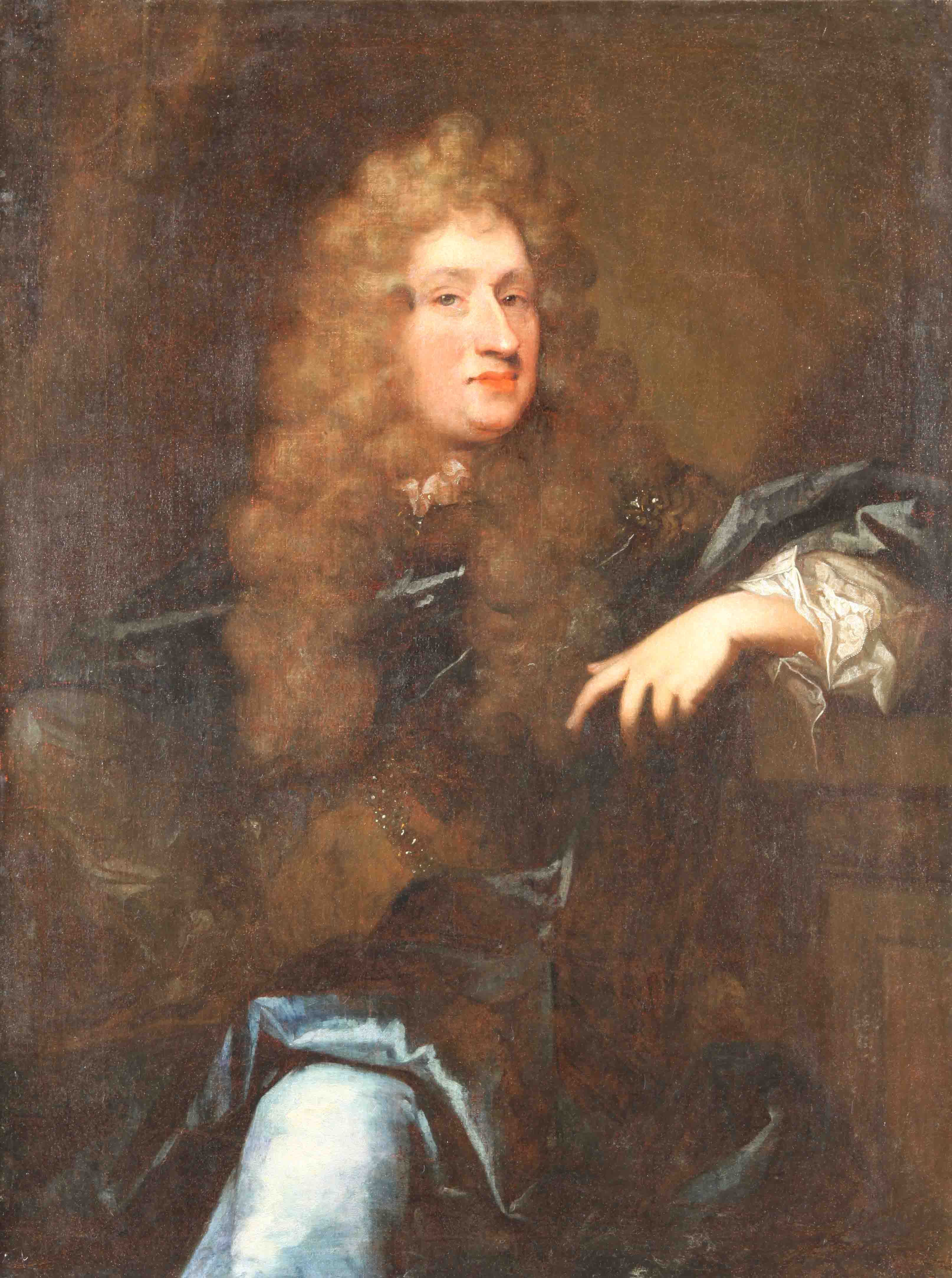 Portrait of Ulrik Frederik Gyldenløve, Count of Laurvig, viceroy of norway (1638-1704) son of Frederick iii of denmark norway